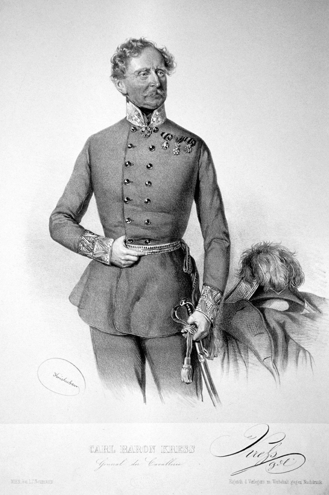 Karl Kress, Freiherr von Kressenstein (1781-1856), k. k. General der Kavallerie, Geheimrat.Lithographie von Josef Kriehuber, um 1850